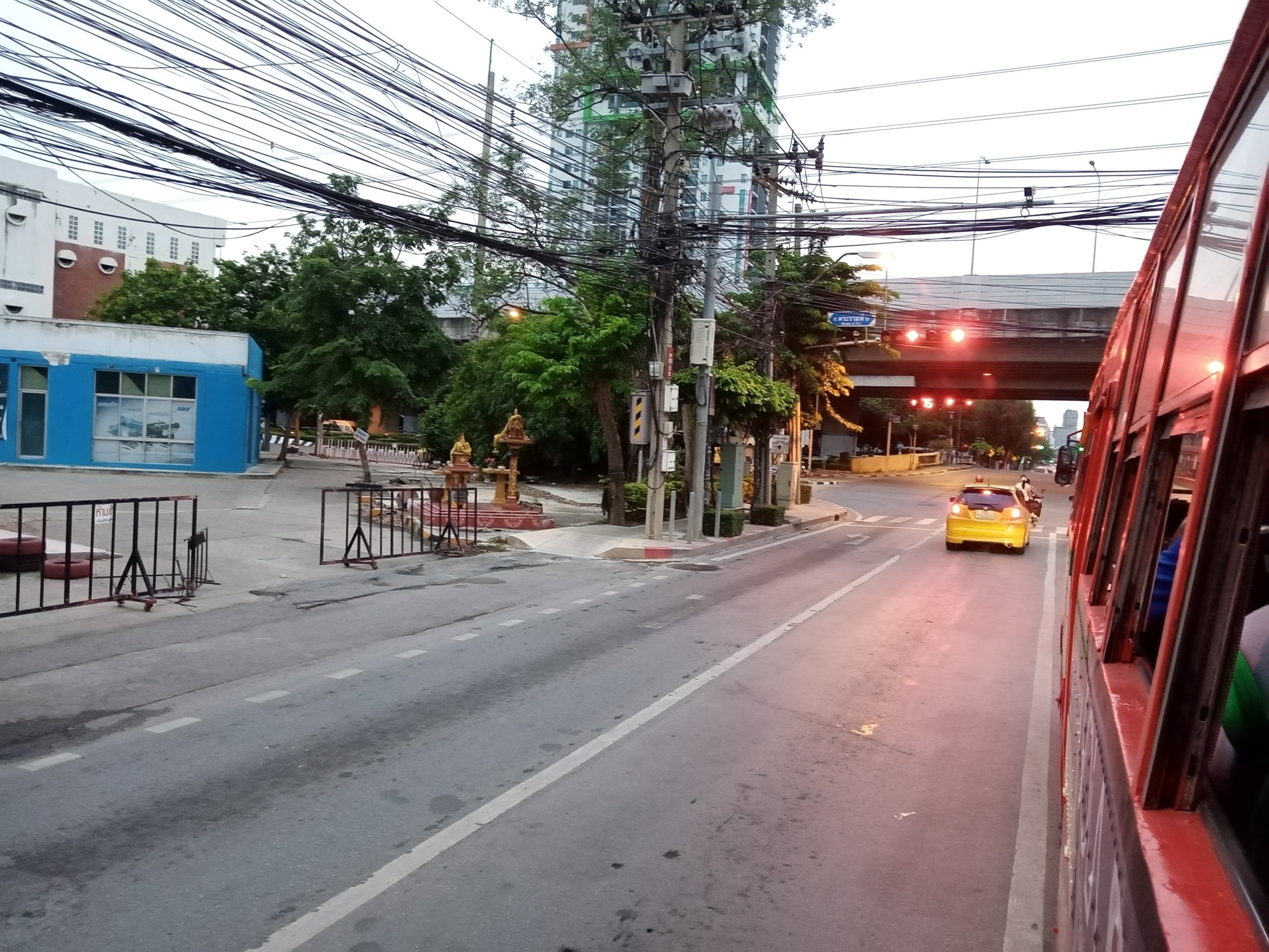 Pradiphat Rd.